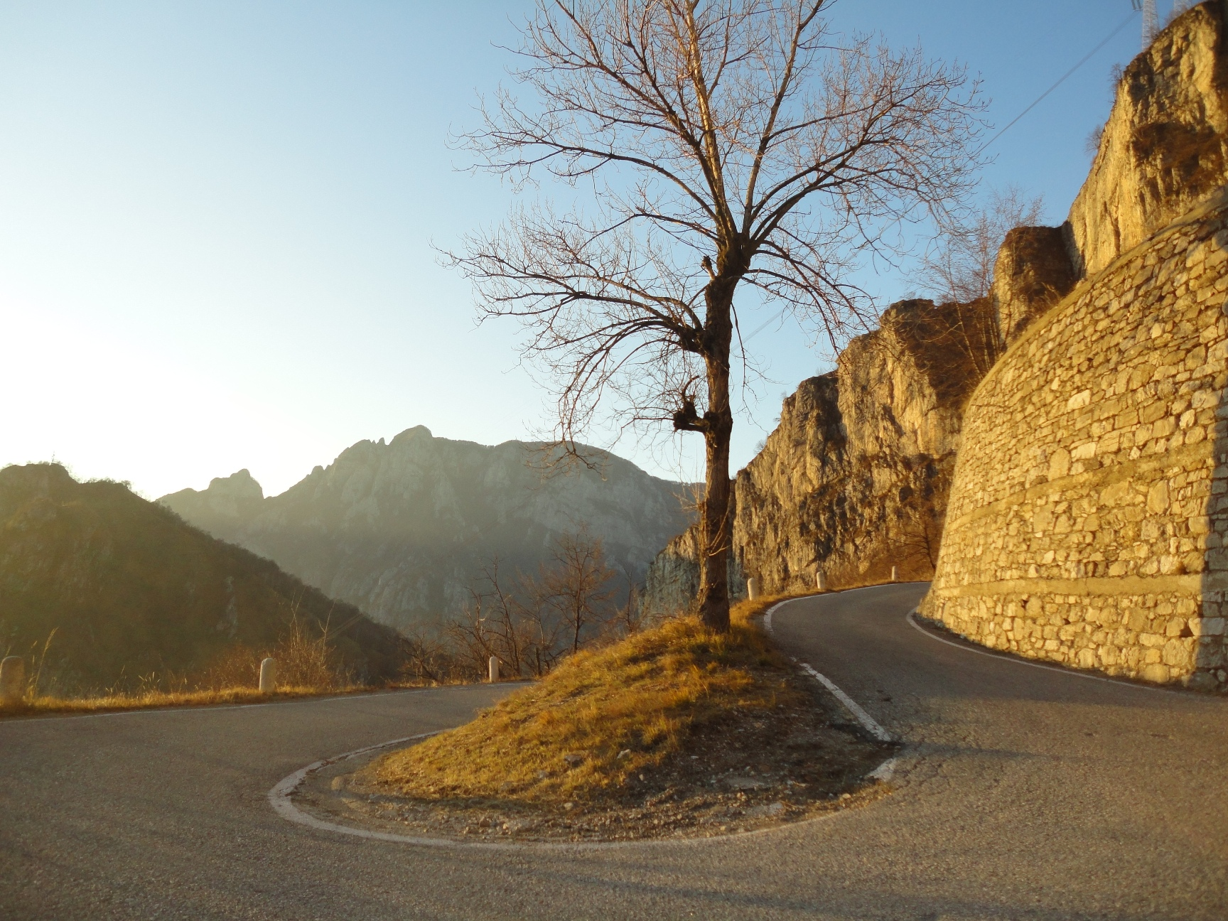 Mountain road from Lecco to Morterone